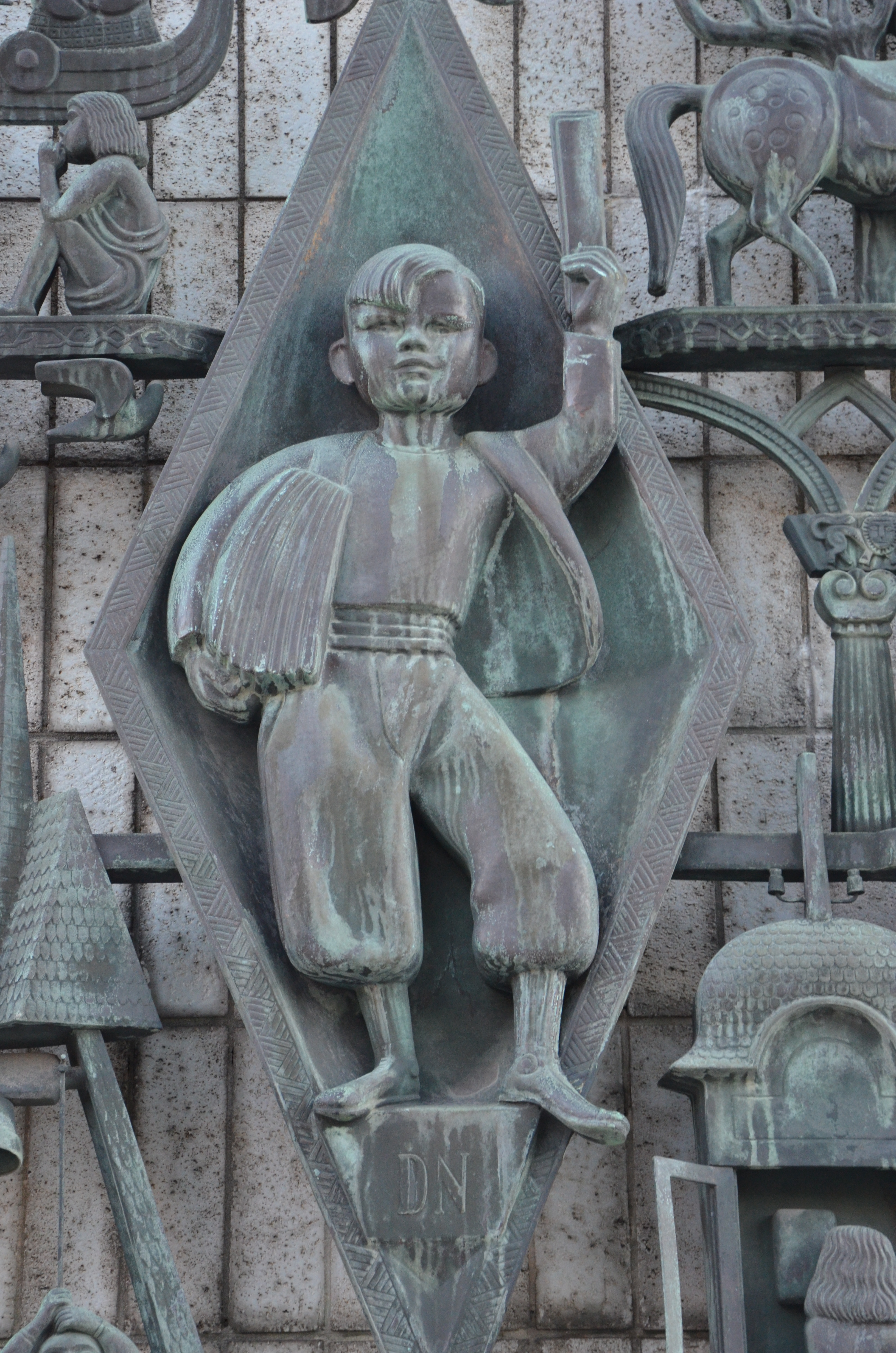 Detalj av Stig Blombergs Friheten är vår lösen, Stockholm